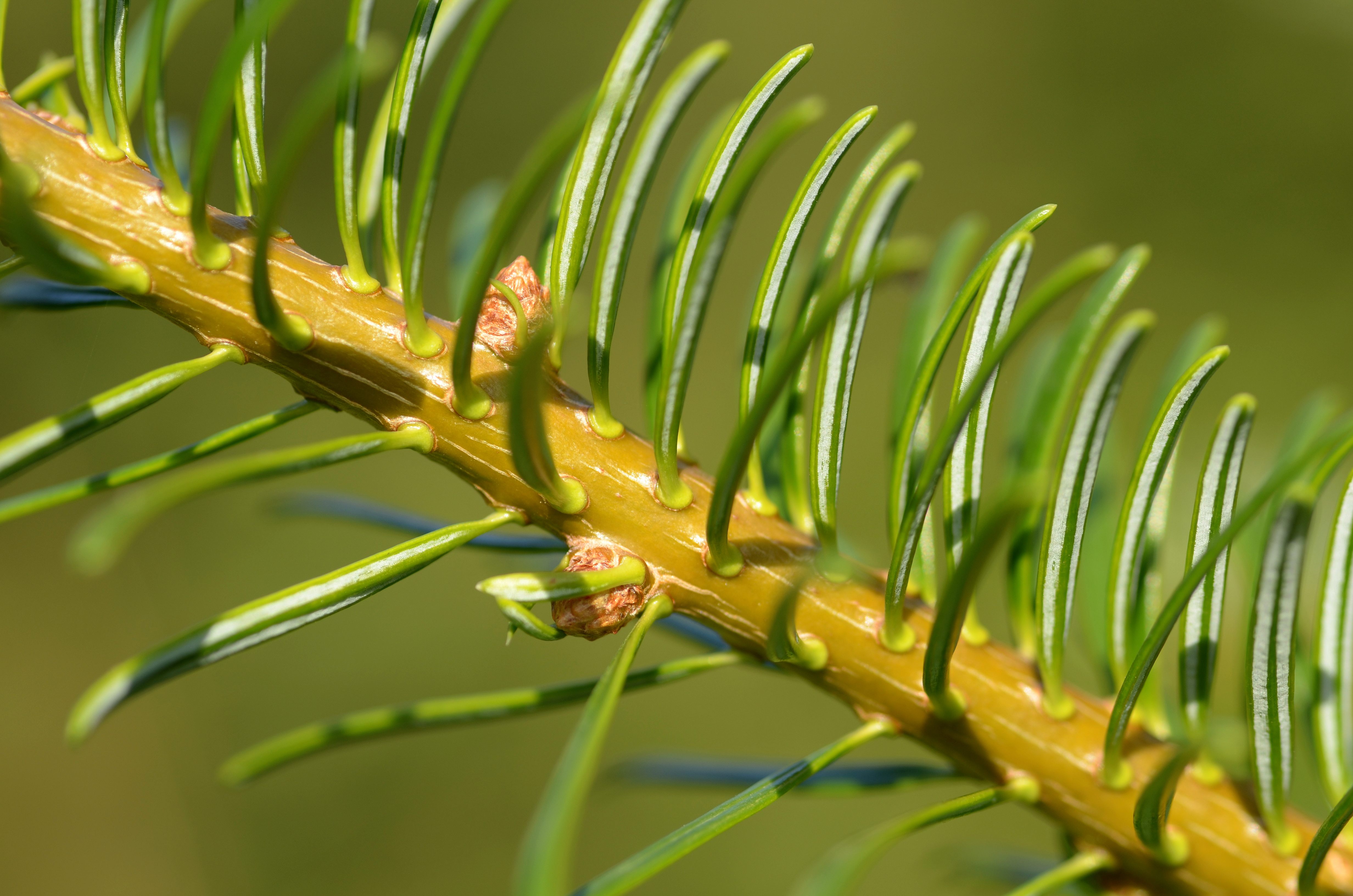 Twig of the Abies nordmanniana: Not hairy, non-resinous buds.